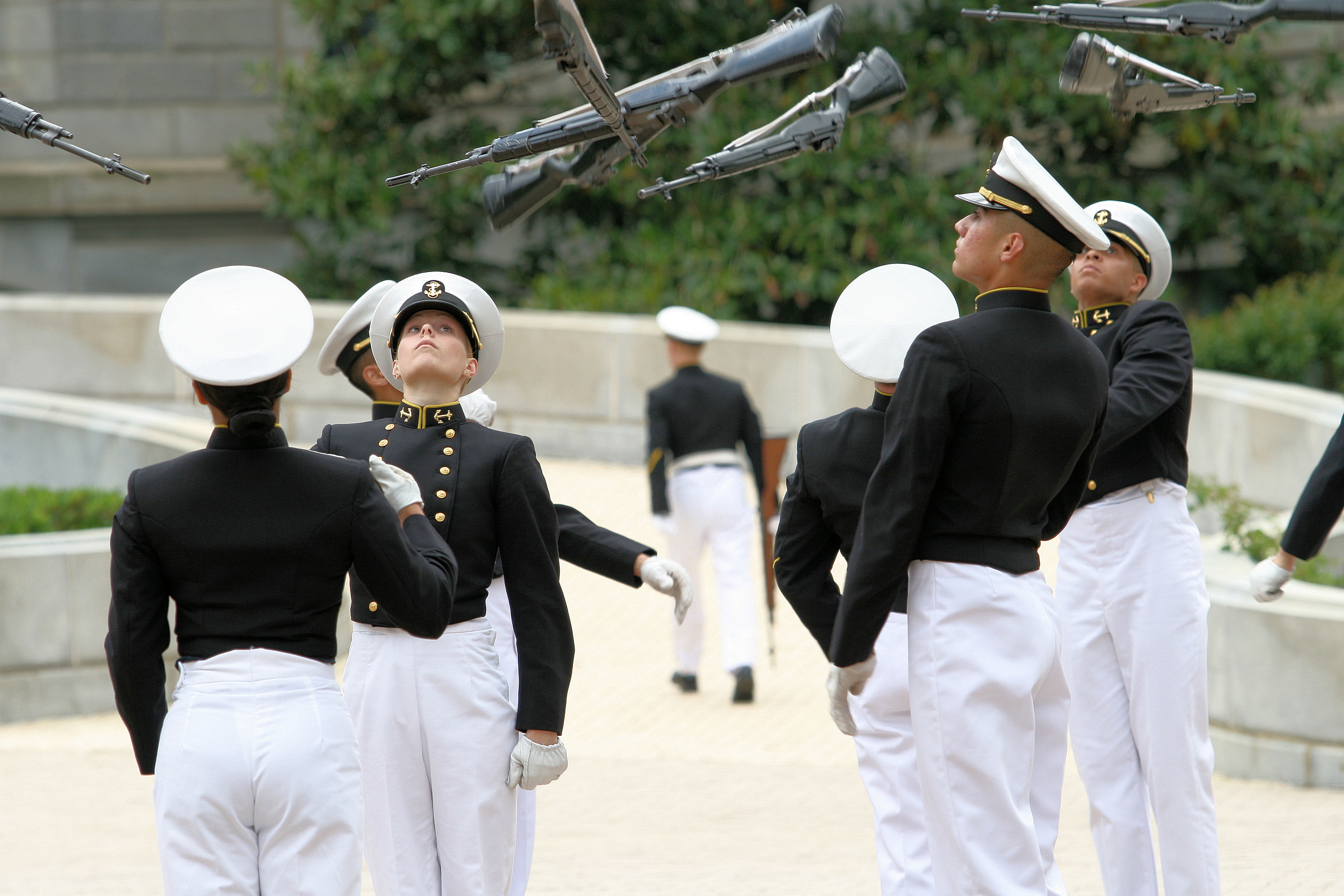 Rifle drill team demonstration following the May, 2013 graduation ceremony at the United States Naval Academy.